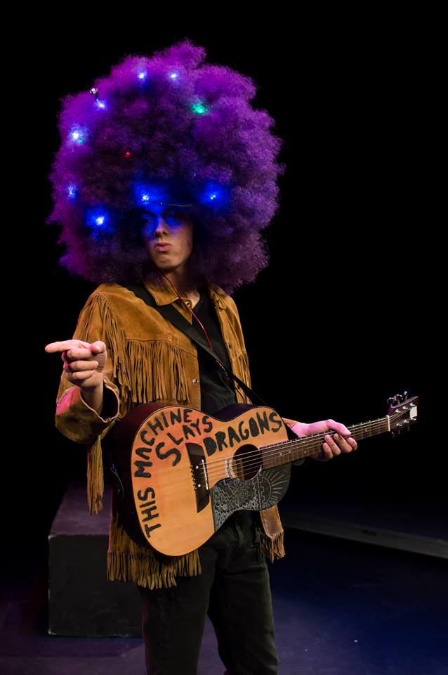 Nate Christensen in Killer Wigs from Outer Space by David Nehls